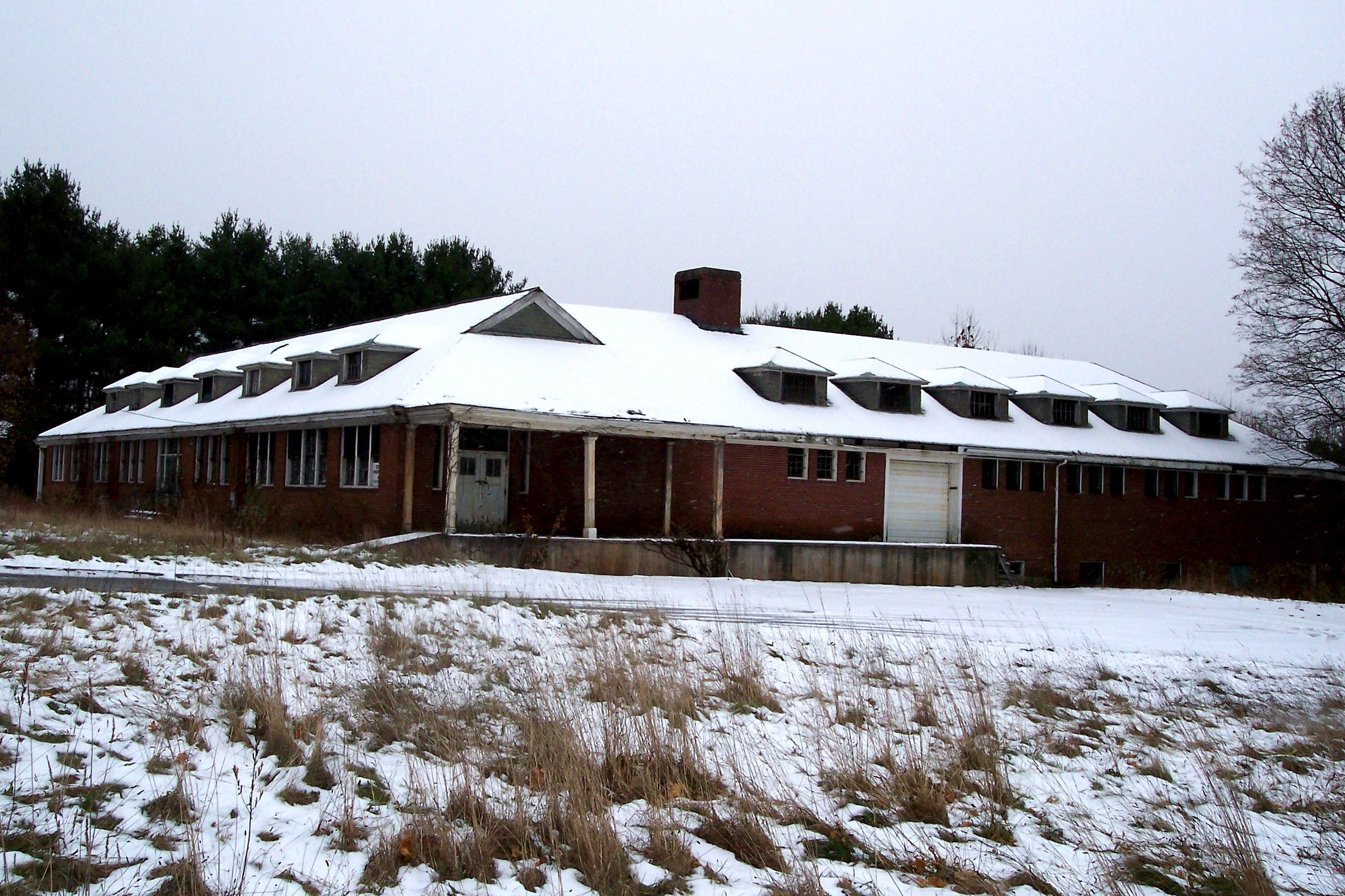 Lyman School Campus building. Photo by Author, Richard B. Johnson.